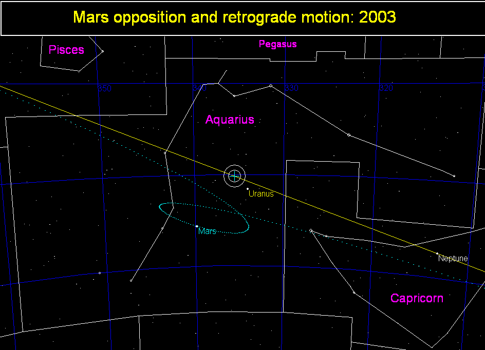 Mars path in the sky during opposition 2003. Each blue dot represents the position of Mars every 24 hr.Retrograde starts at approx. 30 JLY 2003 and ends approx. 28 SEP 2003.The yellow line shows the path of the Earth's shadow (opposite to the sun in the sky).The white double-circle shows the location of the shadow at opposition (or at maximum retrograde) (approx. 30 AUG 2003).